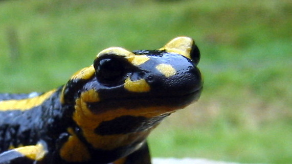 Salamandra salamandra terrestris Portrait